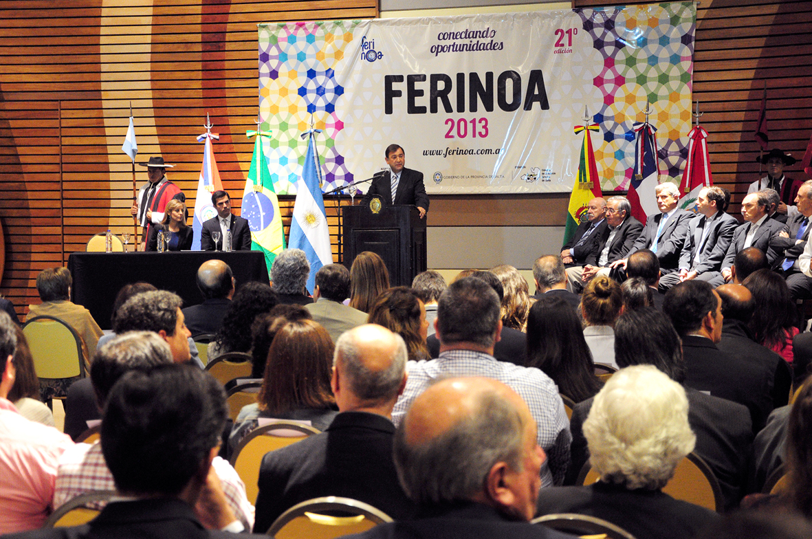 Lanzamiento de Ferinoa en el Centro de convenciones de Salta